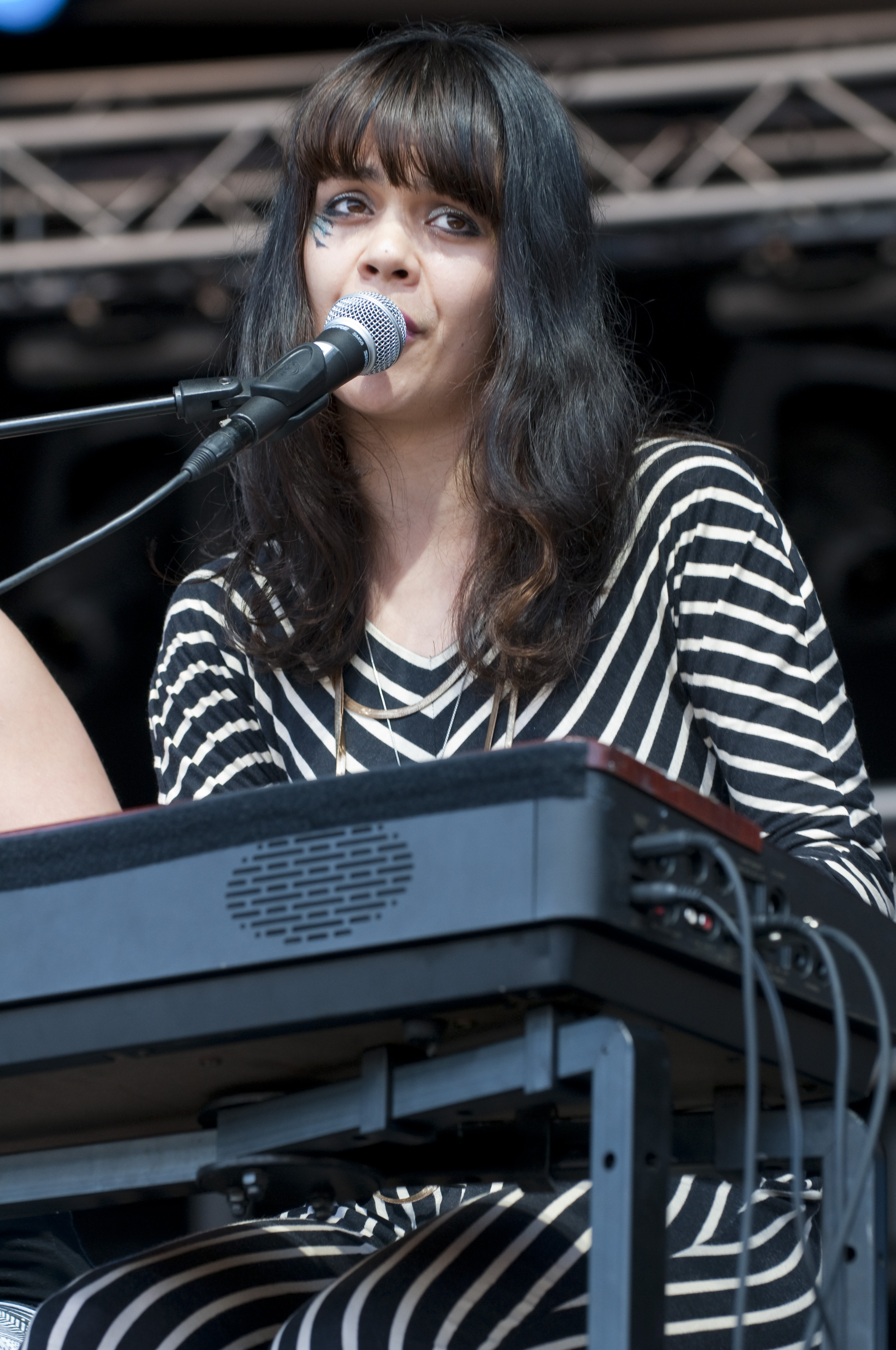 Bat for Lashes